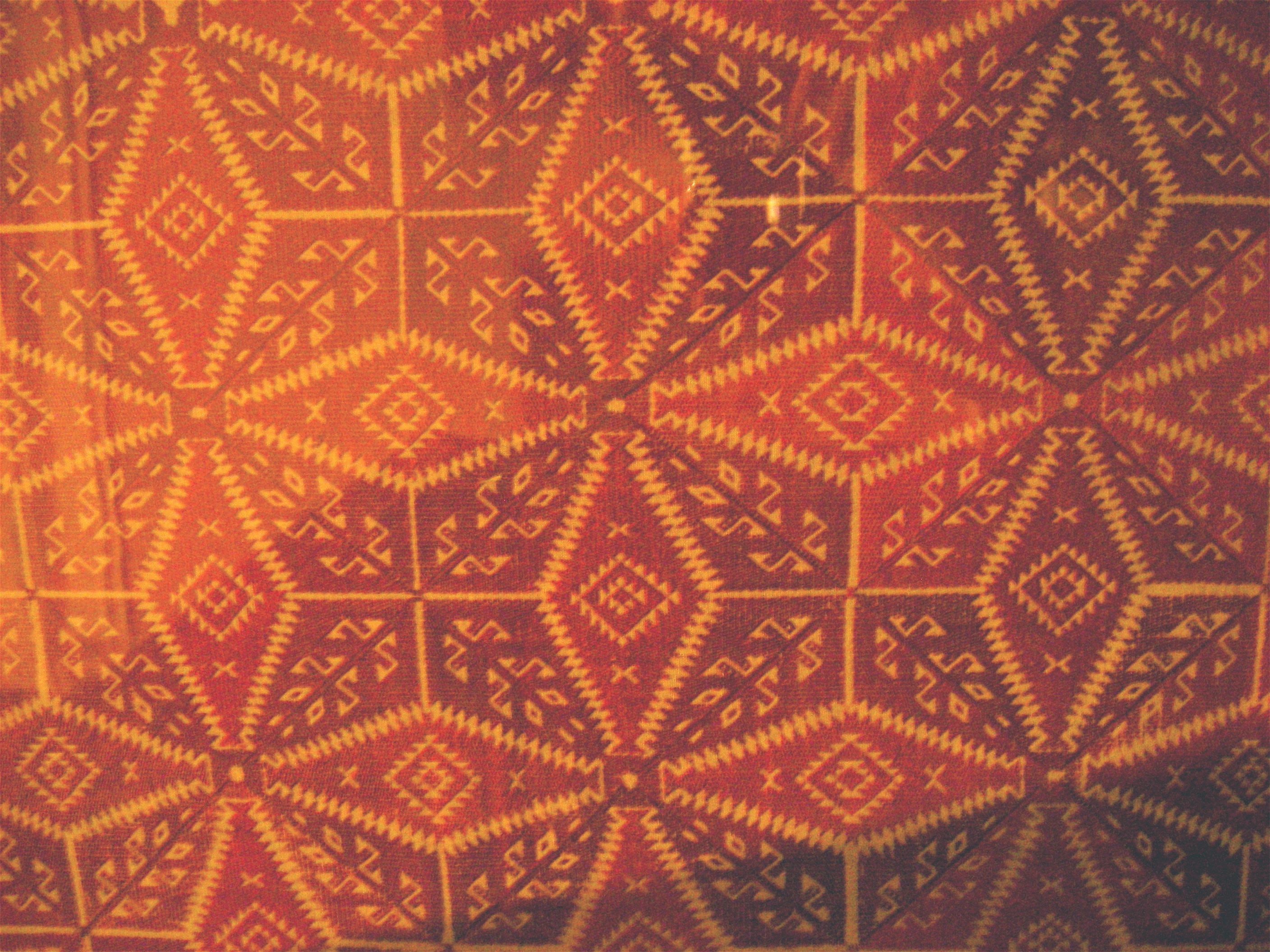 Cycladic Embroidery (Naxos) 18th century /Broderie cycladique (Naxos) XVIIIe siècle in Victoria and Albert Museum (London)